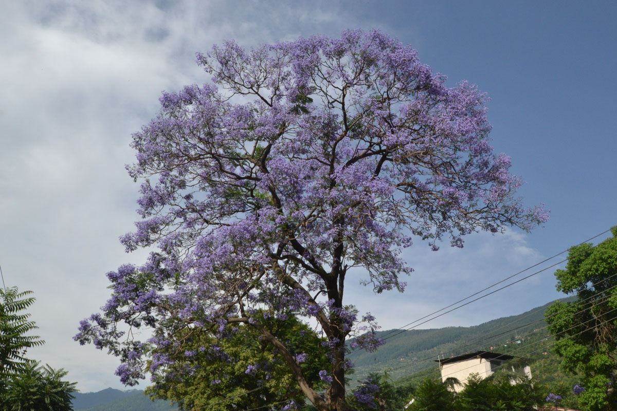 Jacaranda Tree in Full Bloom in Kullu, Himachal Pradesh, India